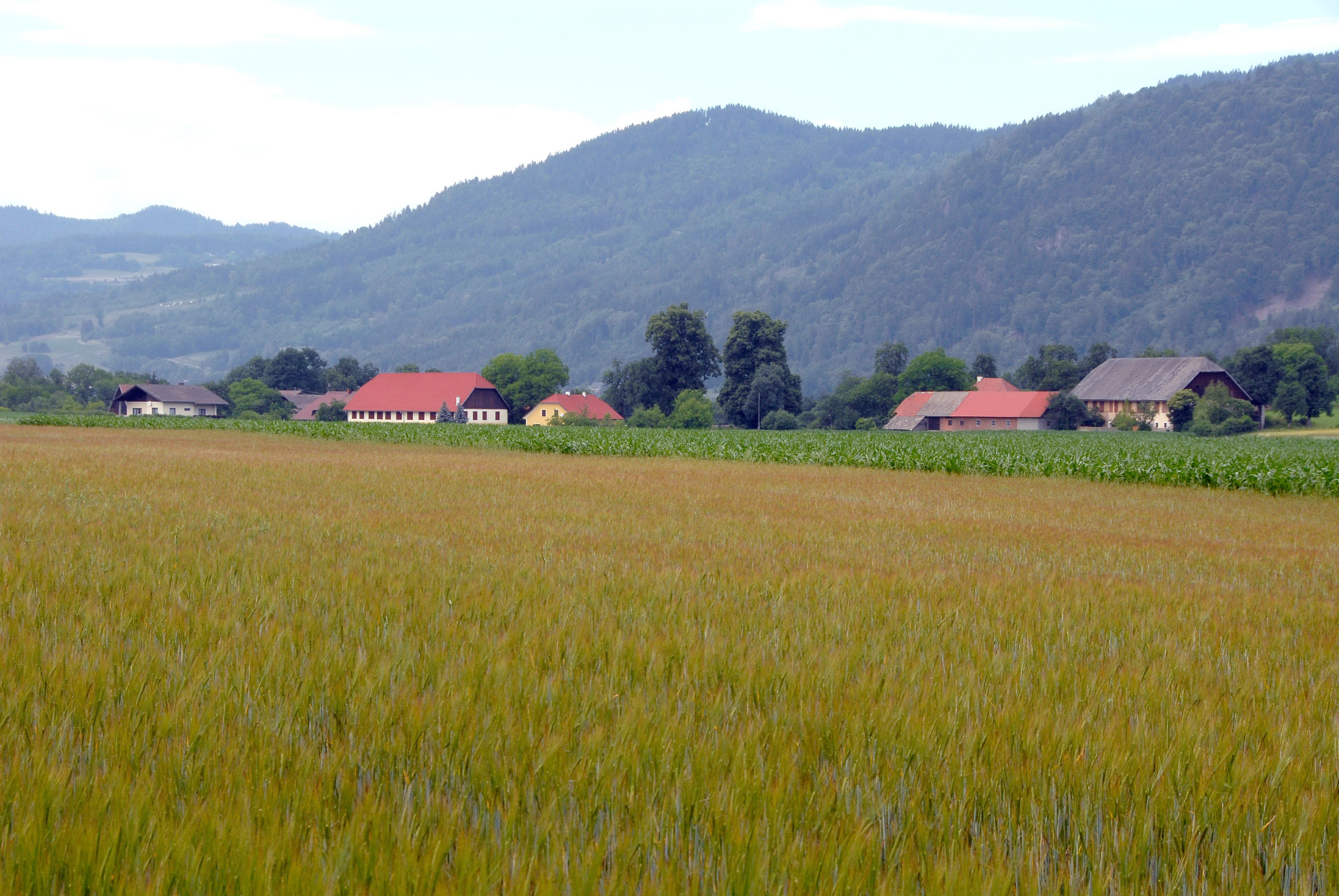 Fields and farmhouses in Annamischl, municipality Poggersdorf, district Klagenfurt Land, Carinthia, Austria, EU